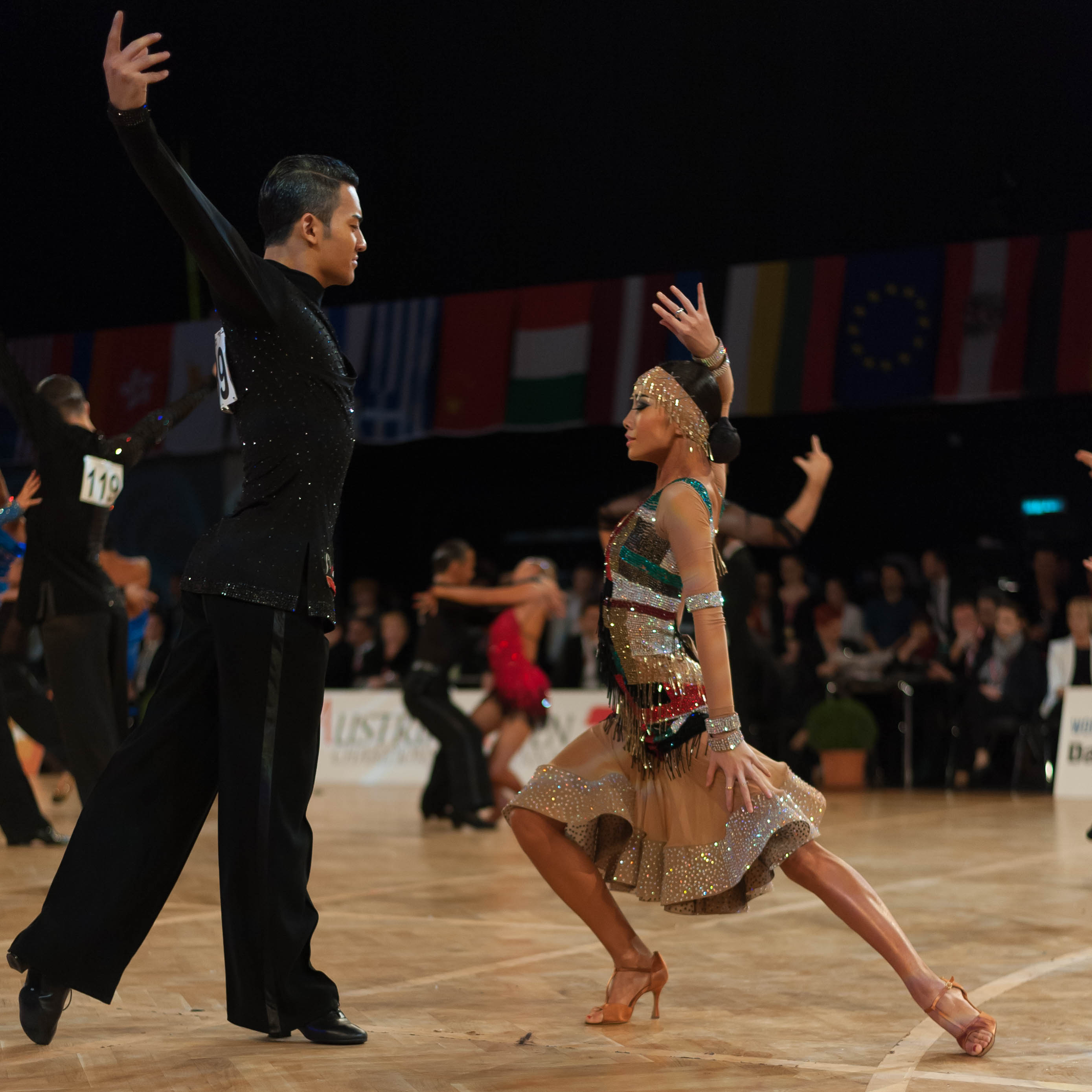 2015 WDSF World DanceSport Championship Latin, 2015-11-21, Schwechat, Lower Austria